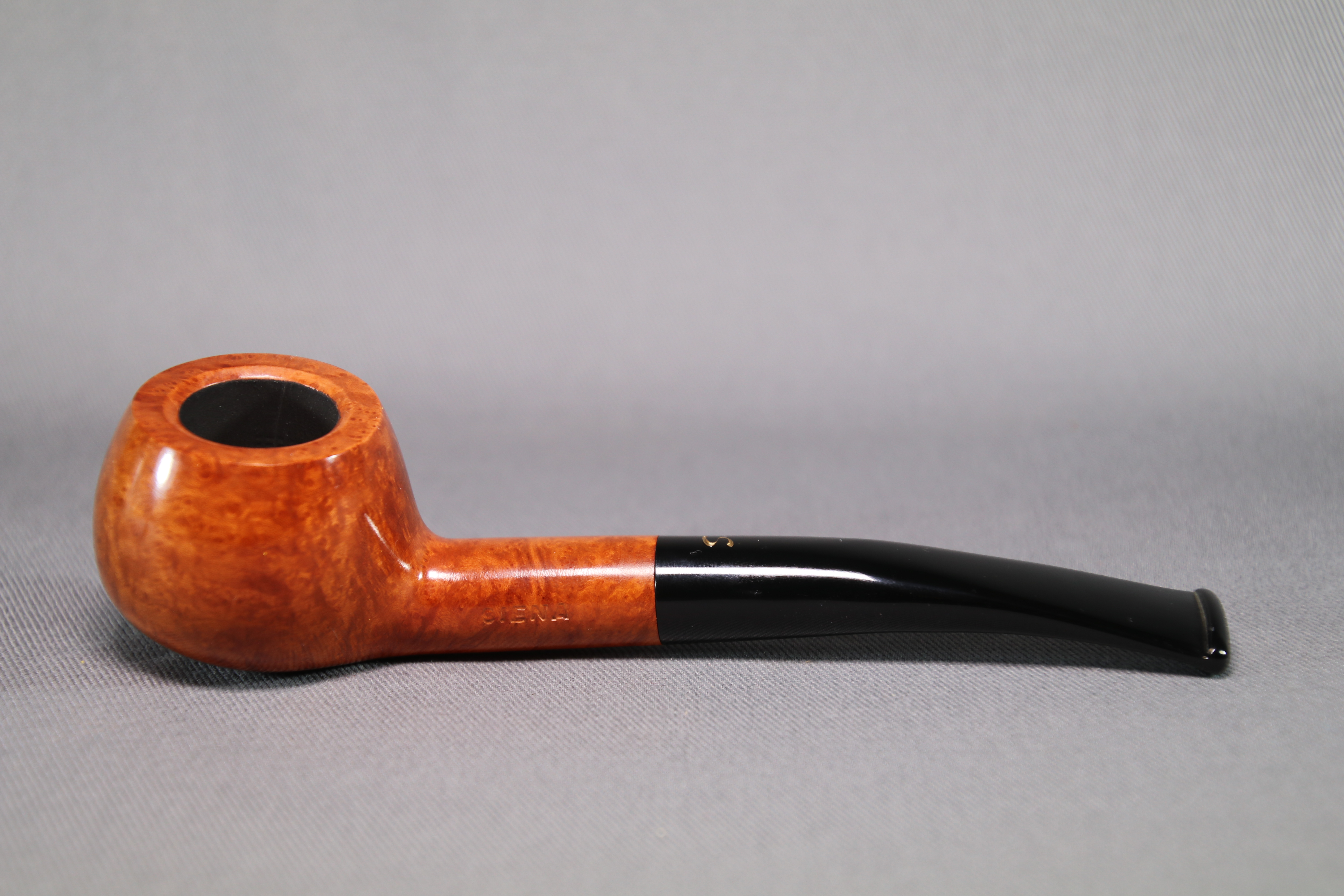 Prince shape smoking pipe.